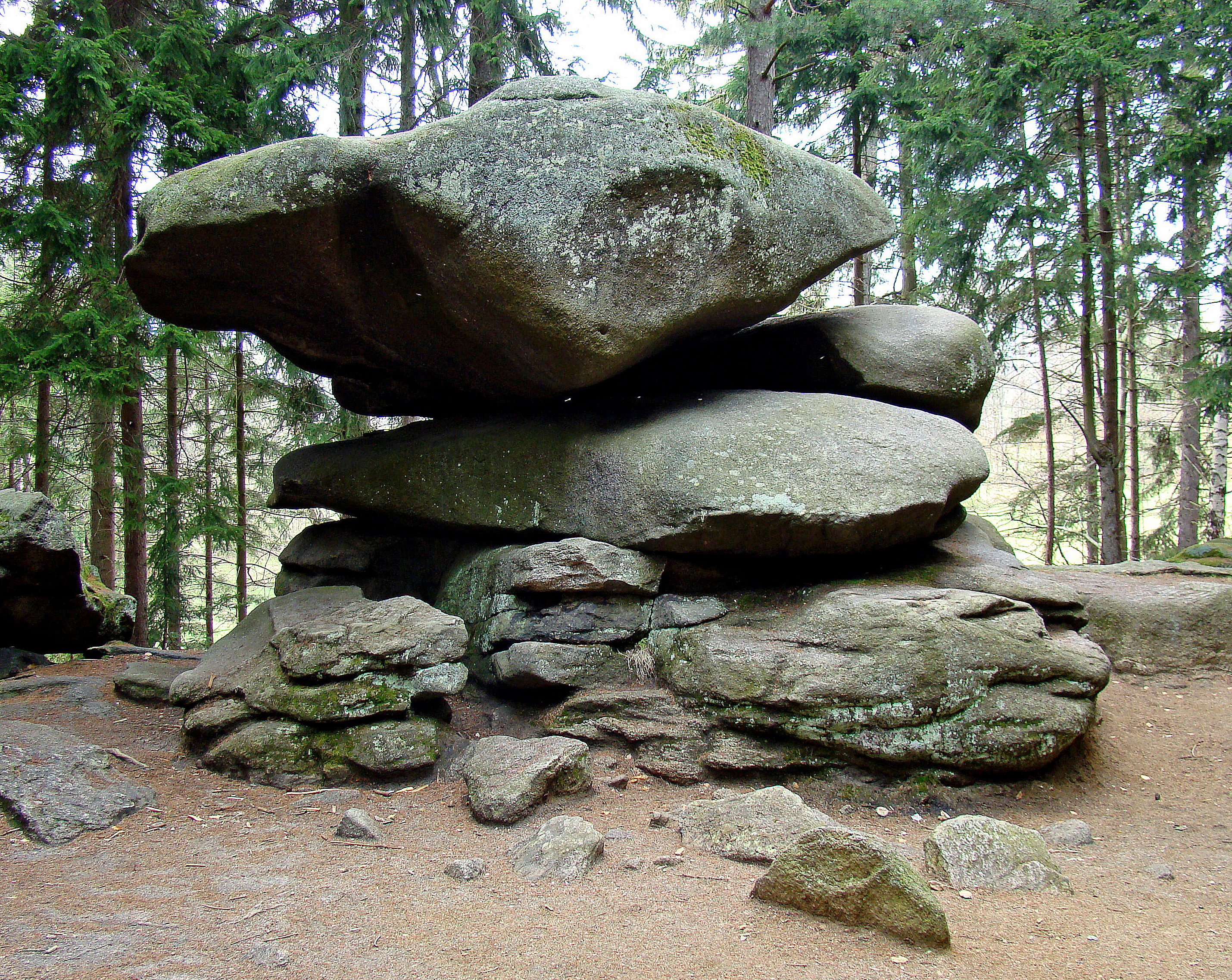 Chybotek Szklarska Poreba, Poland